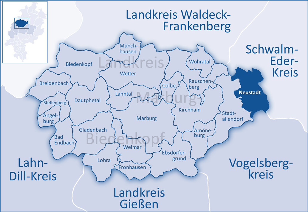 The map shows a district in the area of Marburg-Biedenkopf